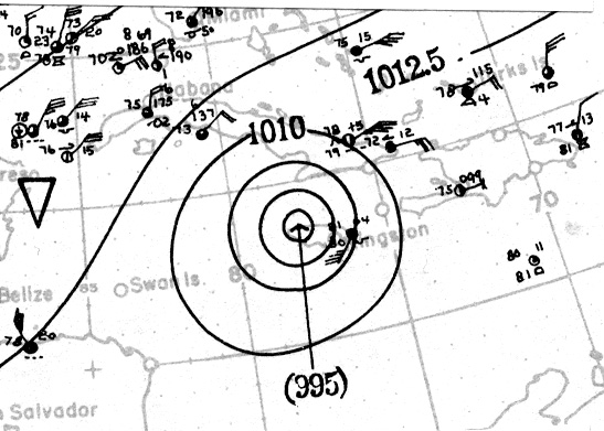 A weather map of the 7th Atlantic tropical cyclone of the 1912 hurricane season, over Jamaica.